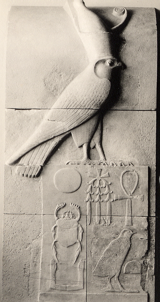 Relief, mortuary complex, Senwosret I